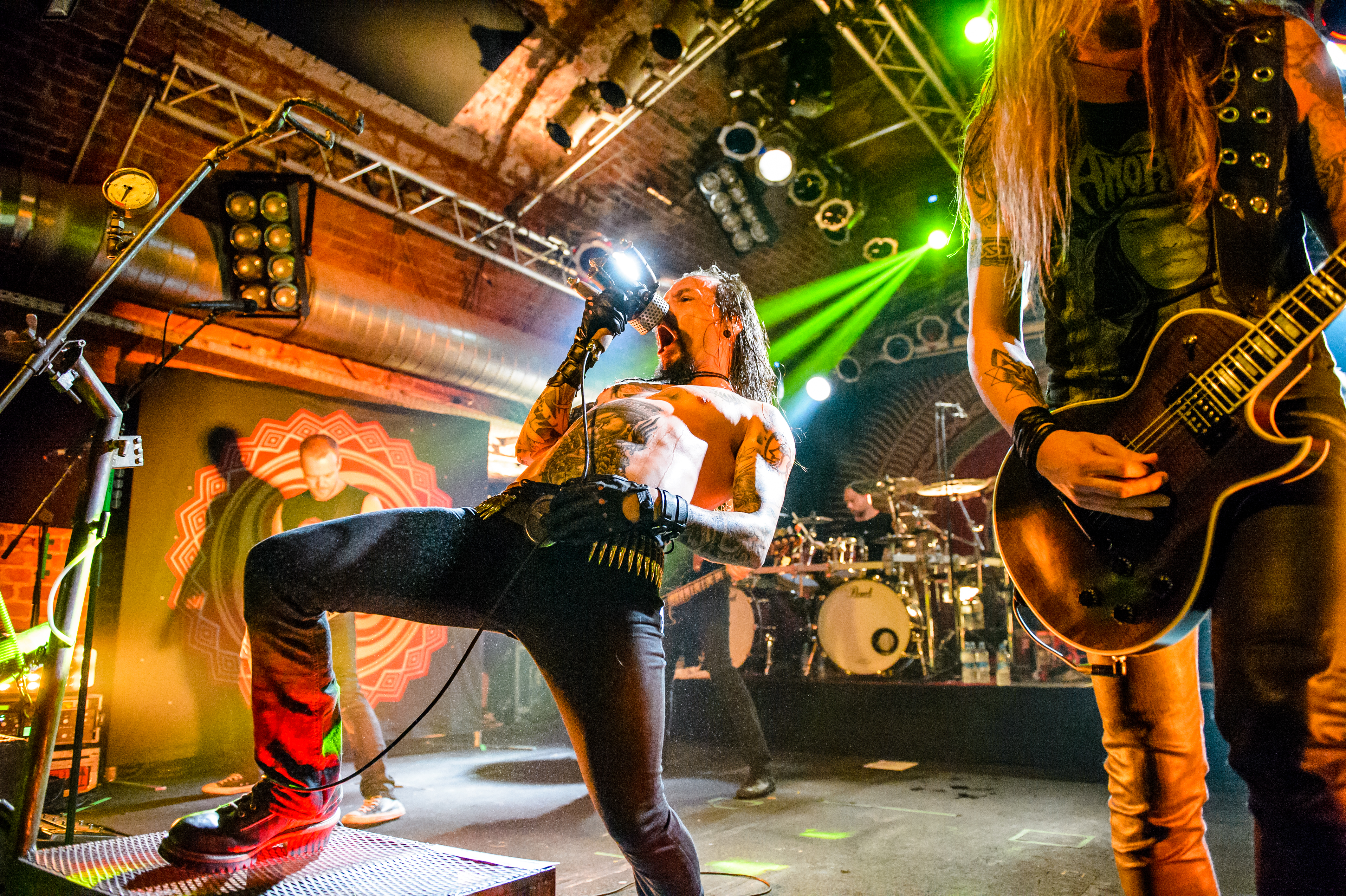 Amorphis - Under the Red Cloud; Matrix Bochum